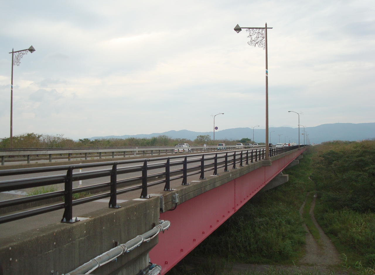 Nagaoka Ohashi Bridge